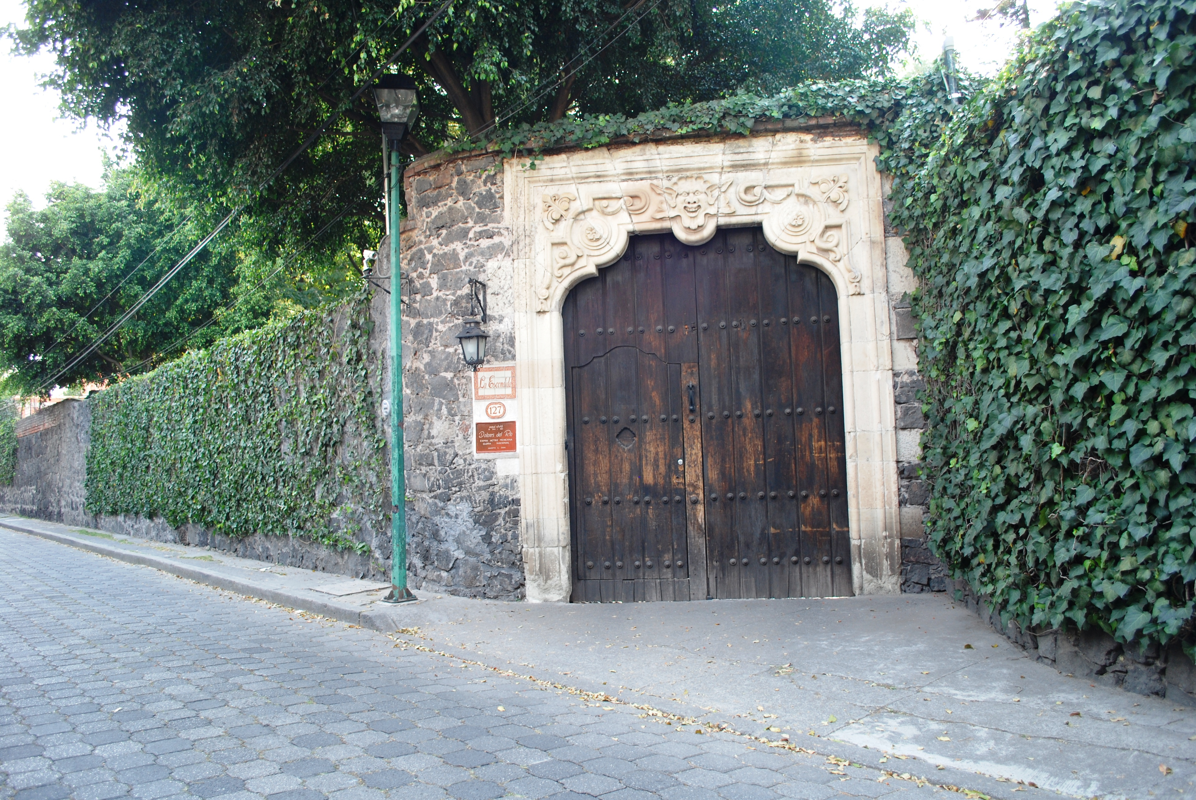 Main gate to the former home of Dolores del Rio in Coyoacan, Mexico City